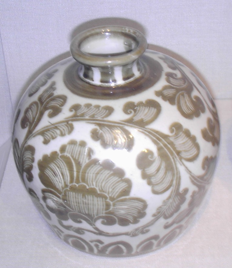 A Chinese Song Dynasty (960-1279 AD) ding-ware porcelain bottle with iron-tinted pigment under a transparent colorless glaze, made in the 11th century, found in Hebei province. From the Freer and Sackler Galleries of Washington D.C. Author: User:PericlesofAthens Date: August 3, 2007